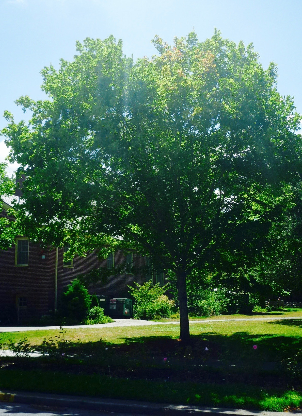 Acer saccharum (sugar maple) on University of Oregon Campus, near Hendricks Hall